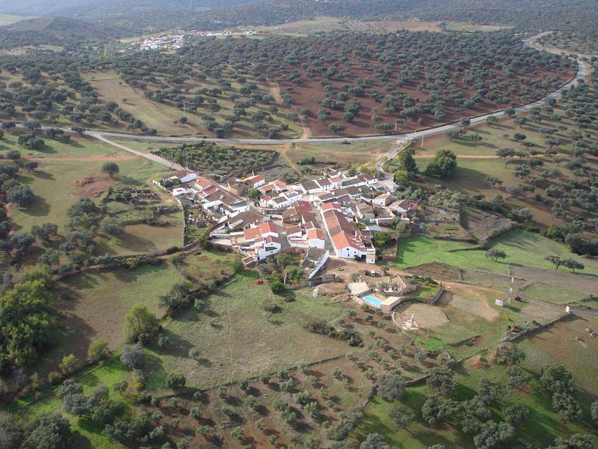 Los Panchez aerial view